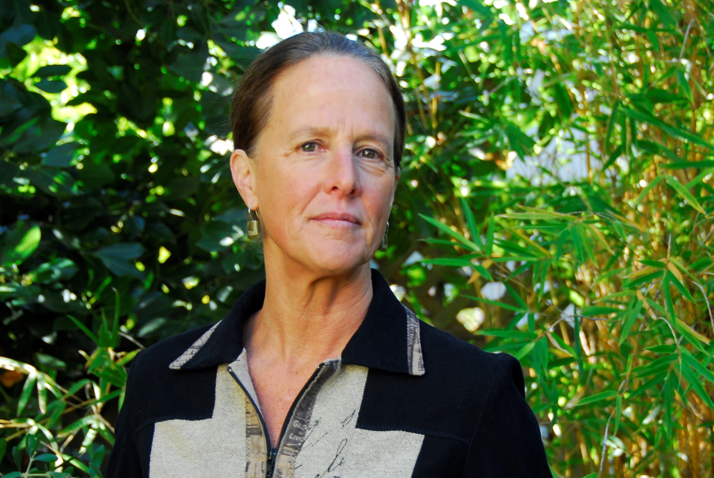 Brown in Berkeley in 2016.